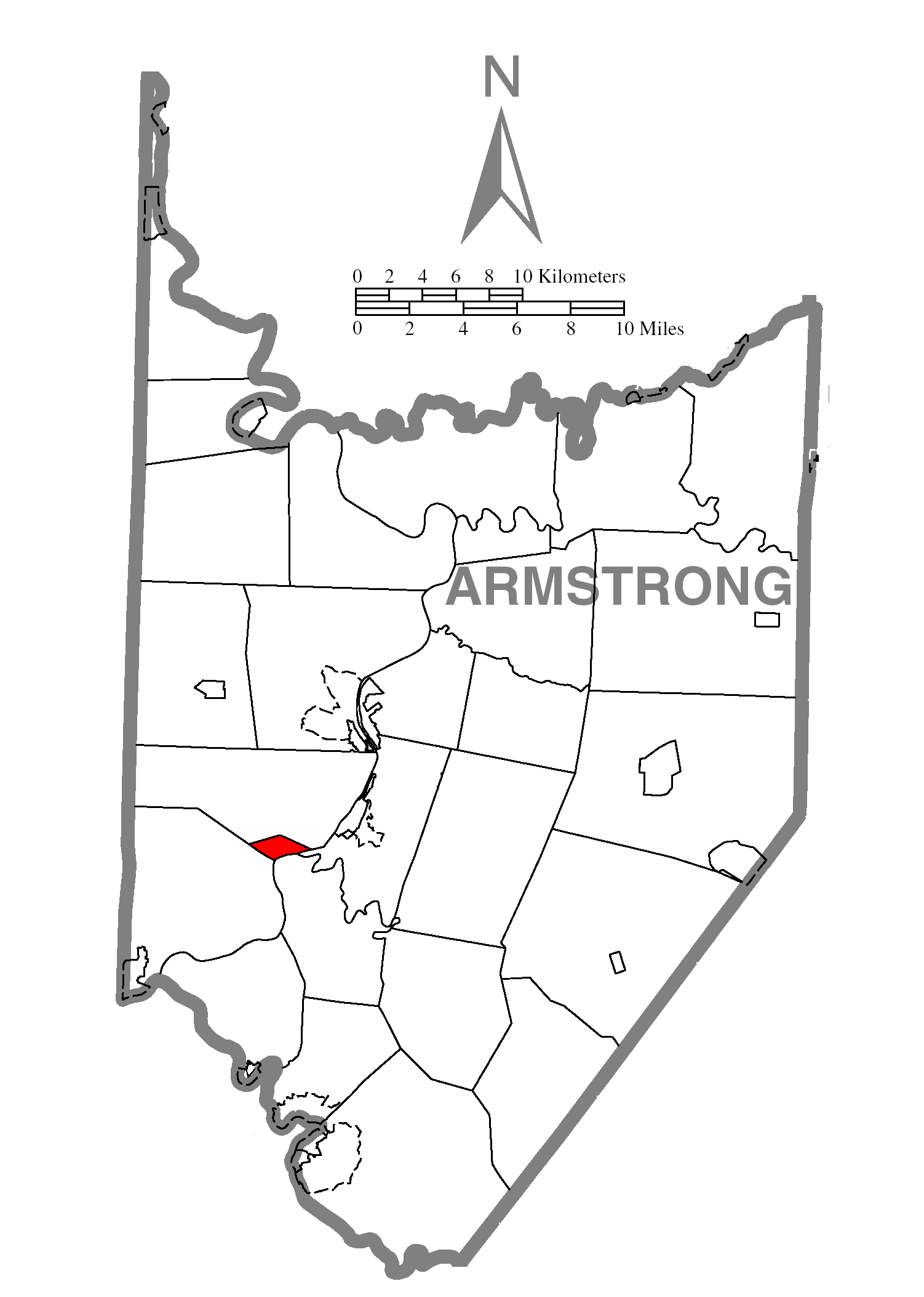 A map of Armstrong County showing Cadogan Township, Pennsylvania (alternate) highlighted on the map.